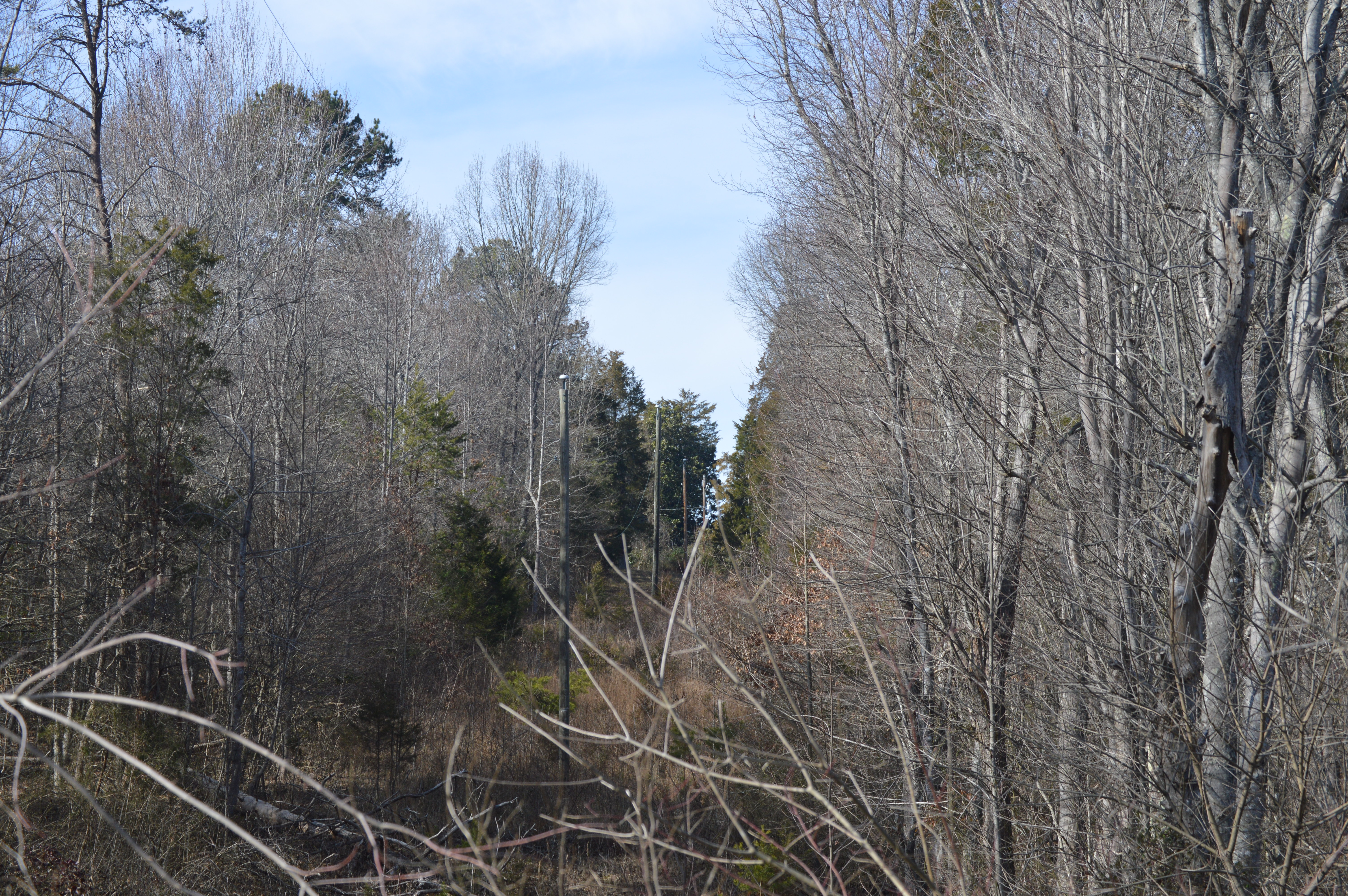 Woodlands on the Federal Hill estate, seen looking north-northeast from Turkey Foot Road southwest of Lynchburg in northwestern Campbell County, Virginia, United States. The estate, centered on a pre-Revolutionary house, is listed on the National Register of Historic Places.